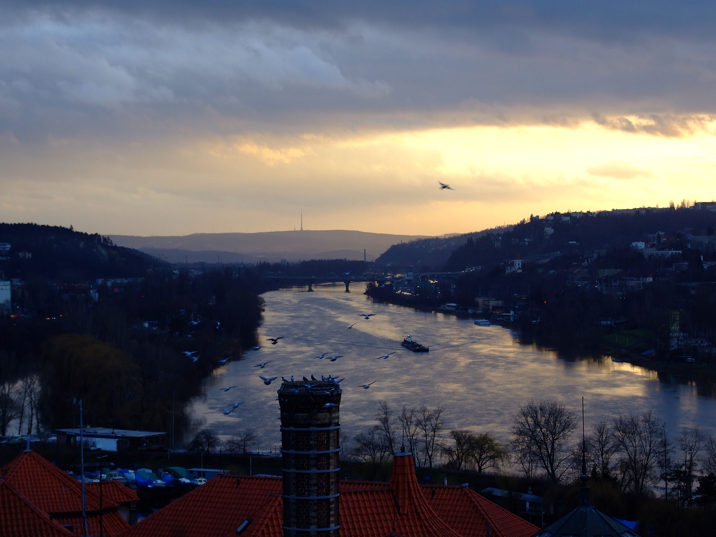 Lookout from Vyšehrad (Prague) castle towards Braník and Barrandov